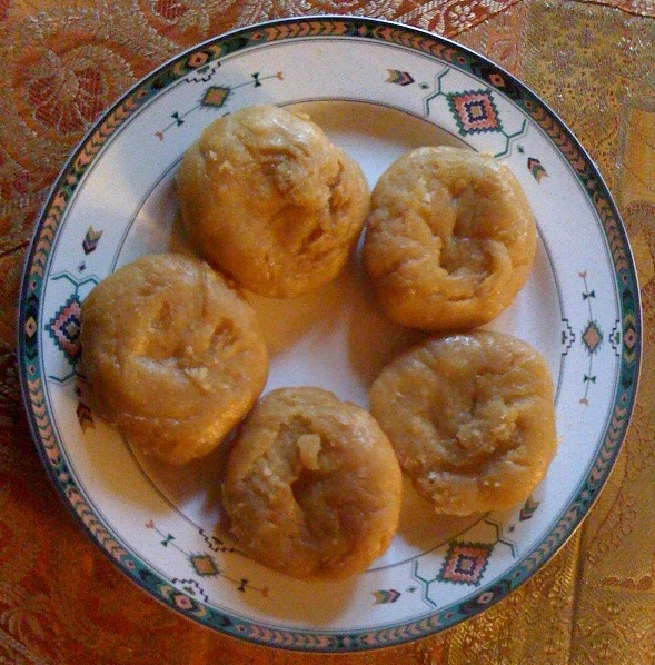 Bhadushah or Badushah is an Indian sweet.